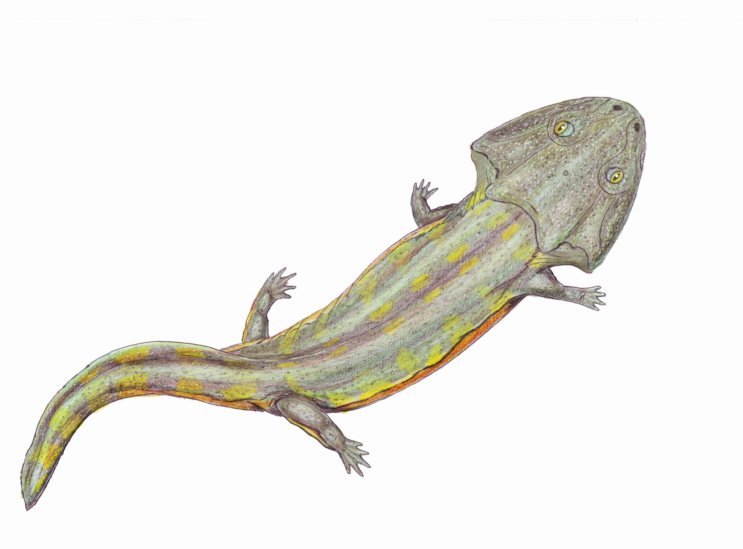 Pelorocephalus tenax - chigutisaurid temnospondyl from Late Triassic of Argentina